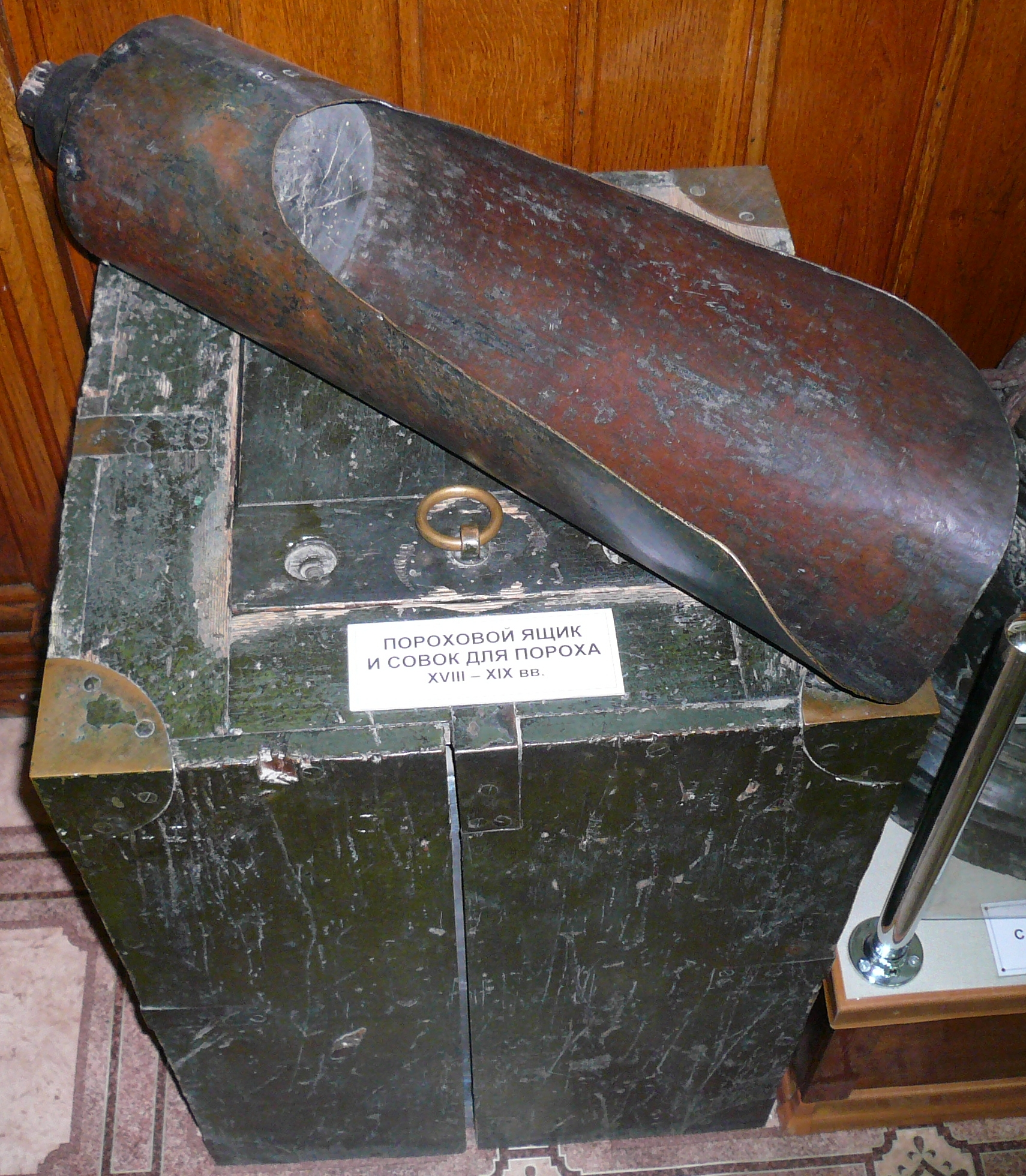 Gunpowder box. 18-19 centures.